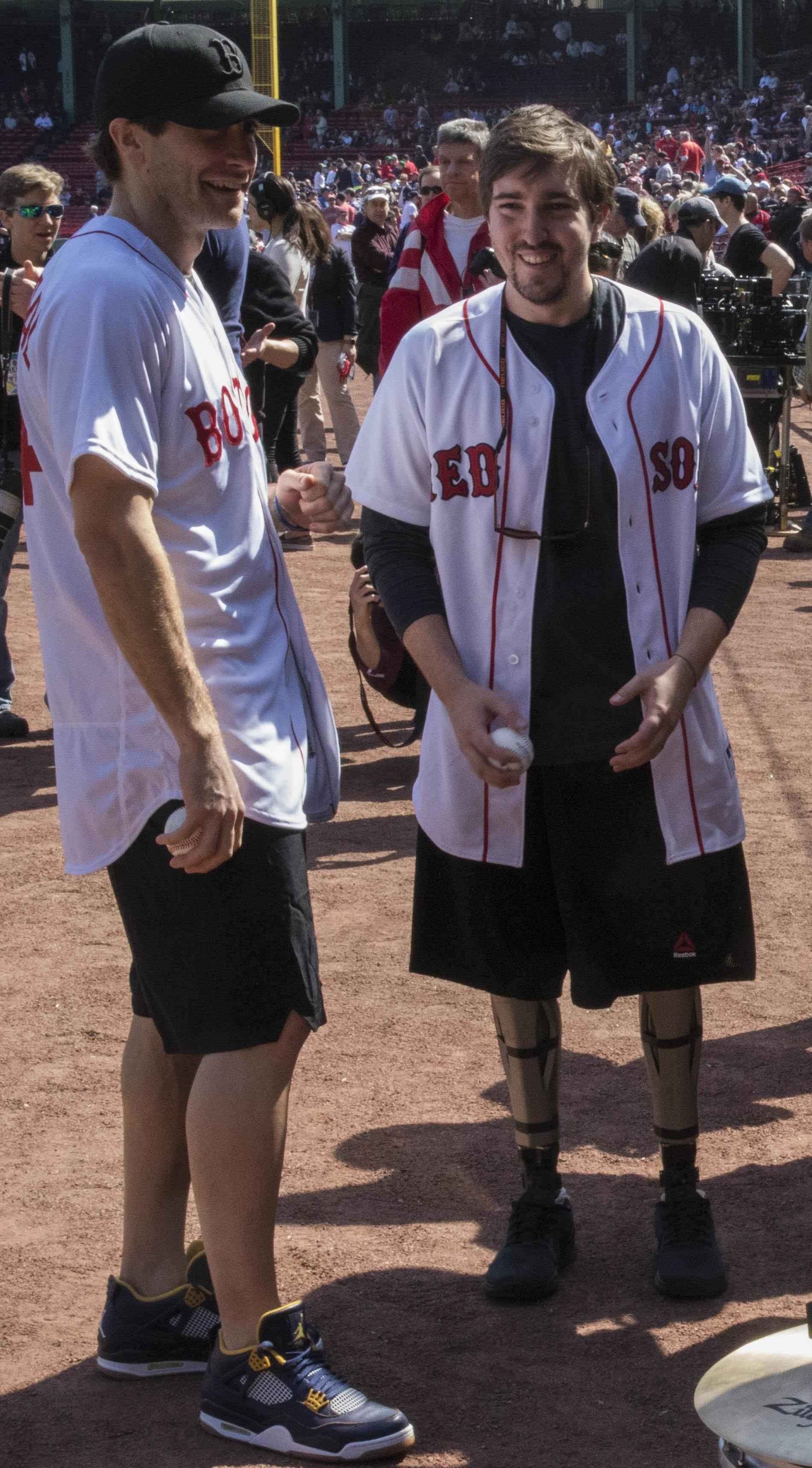 Jeff Bauman and Jake Gyllenhaal with Marines of the 2nd Marine Air Wing band at Fenway Park on April 18, 2016